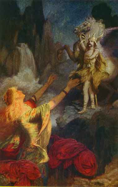 HUNDINGSBANE'S RETURN TO VALHAL From a painting by Ernest Wallcousins (en:1883-en:1976). Published in: MacKenzie, Donald A.: Teutonic Myth and Legend, London, Gresham Publications; 1912. Paperback reprint University Press of the Pacific, 2003; ISBN 1-410-20740-4. As the image was thus published pre-1923, it is in the public domain in the U.S. As the artist died only in 1976, though, it is unlikely to be in the public domain anywhere else. Immediate Addendum: According to this chart the copyright of works published between 1909 and 1923 outside the US, as this one was, is a difficult subject. I don't know whether the book in question was published in accordance with US formalities. If it was it's definitely in the public domain. If it wasn't then that chart doesn't really say but it implies that since it was published in English it should be safe. Haukur 15:45, 31 August 2006 (UTC) Category:Images from Norse mythology